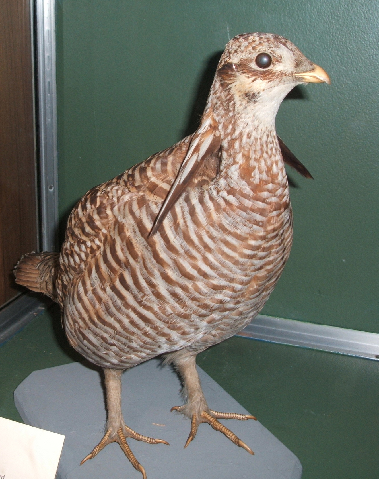 Stuffed specimen of the extinct Heath Hen (Tympanuchus cupido cupido), Boston Museum of Science